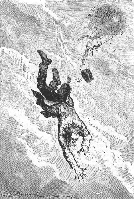 An illustration from Jules Verne's short story "A Drama in the Air" (1851) drawn by Émile-Antoine Bayard.